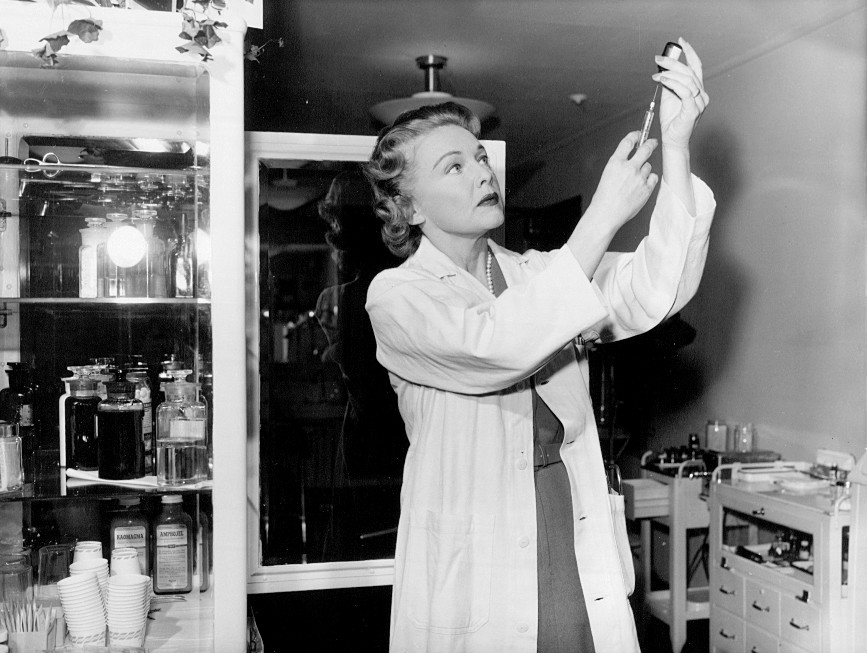 Photo of Madeleine Carroll in the title role of the radio daytime drama The Affairs of Dr. Gentry. The program aired on NBC Radio from 1957-1959. The item has no copyright markings on it as can be seen in the links above.